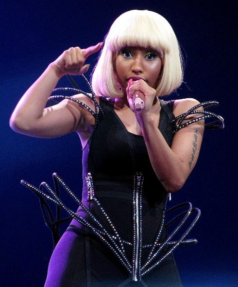 Nicki Minaj live on Femme Fatale Tour in 2011.